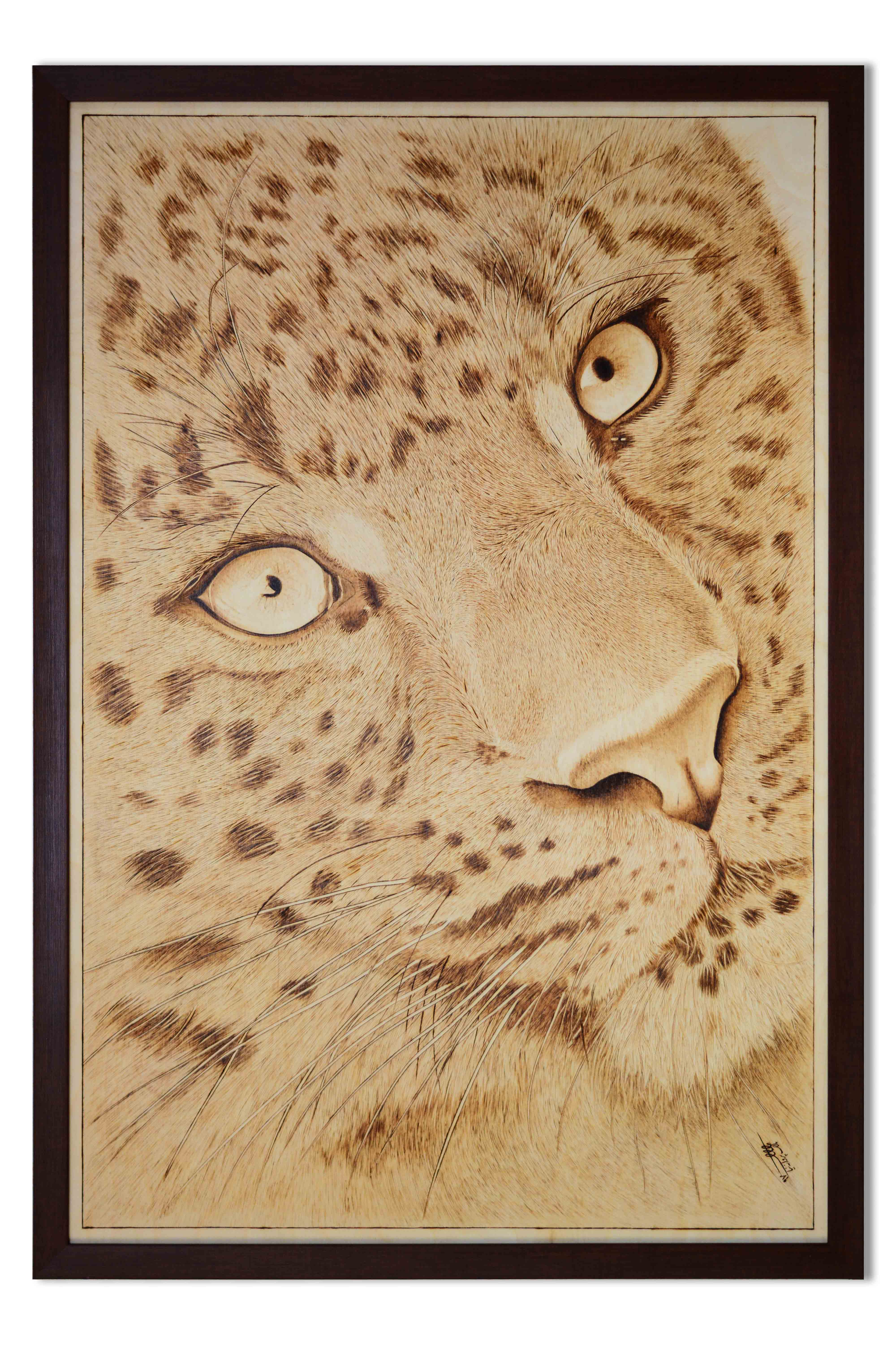 A close up of a leopard